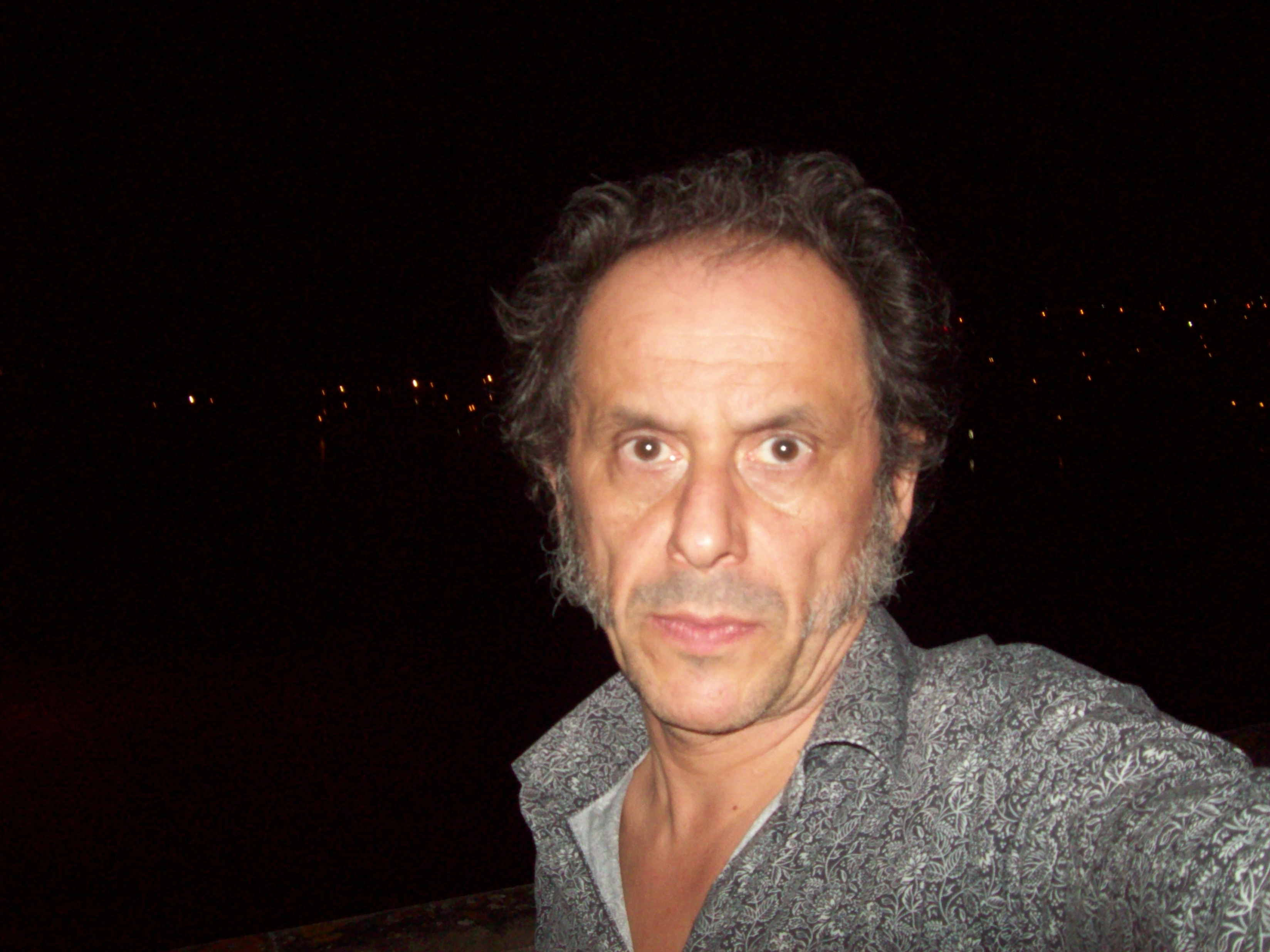 Pascal Comelade by himself